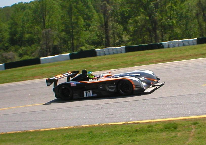 Panoz LMP-1 Roadster S at the 2005 Walter Mitty Classic